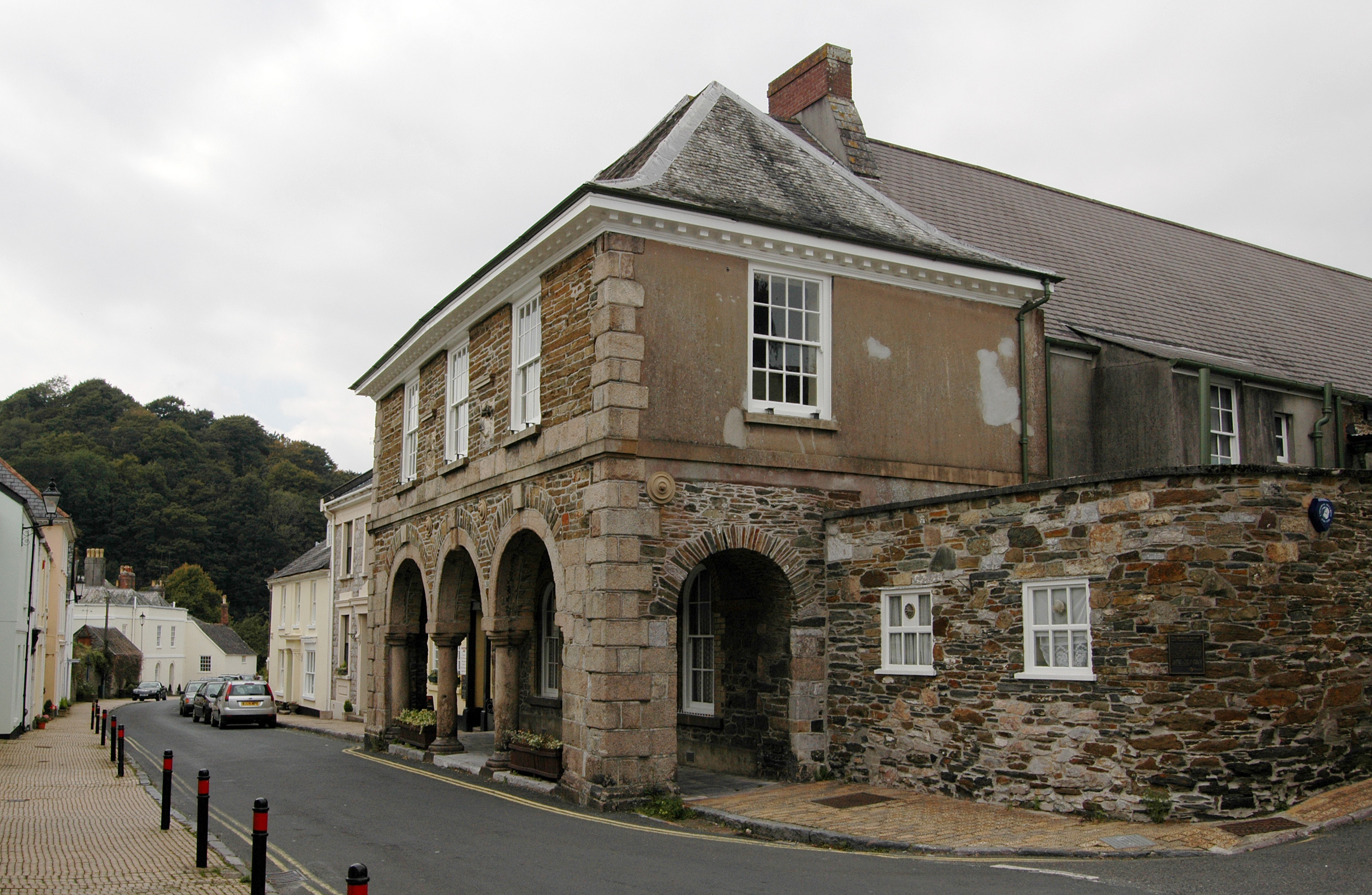 Plympton Guildhall, in Plympton, Devon. The building dates to 1696